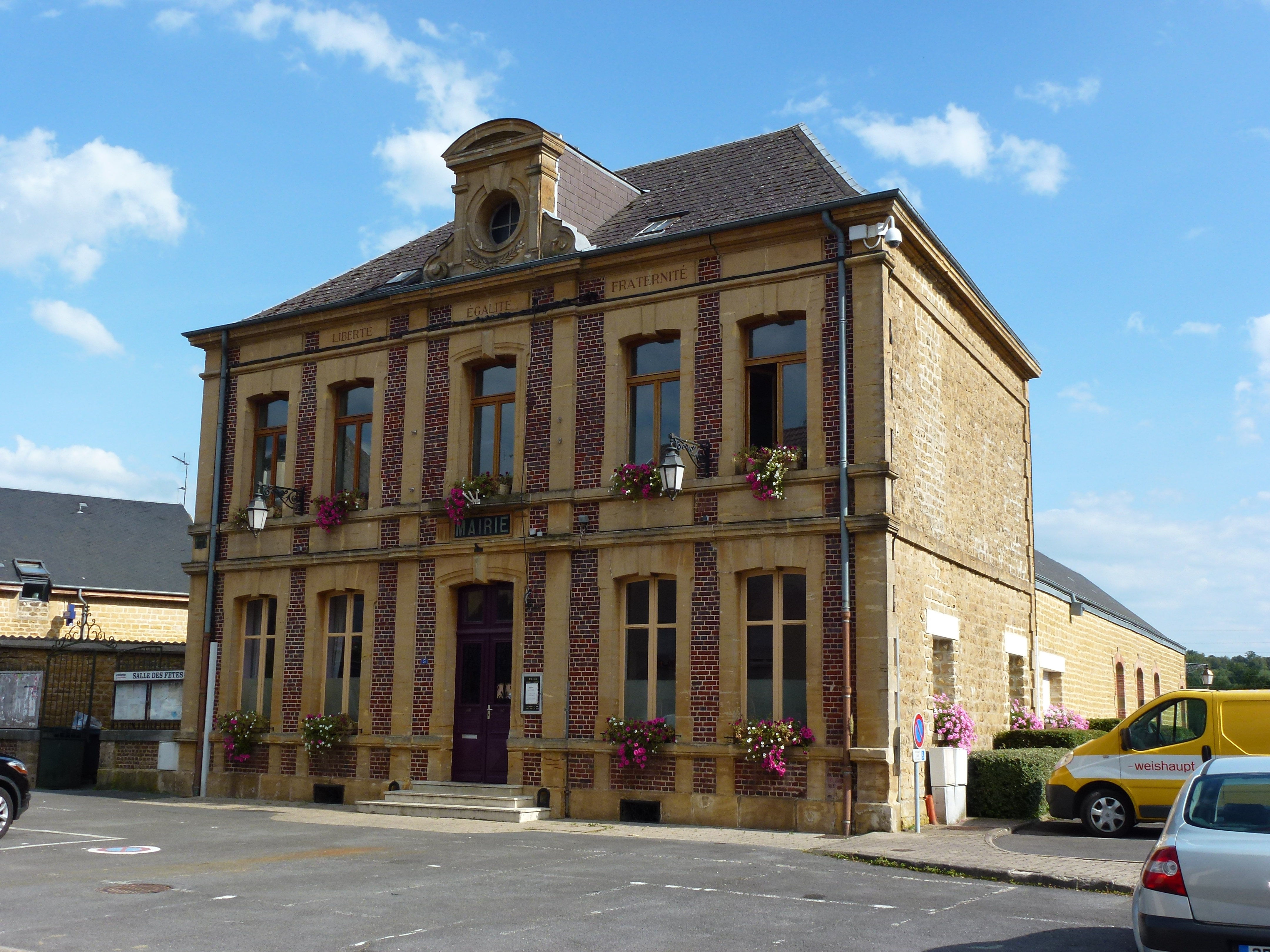 La Francheville (Ardennes) mairie